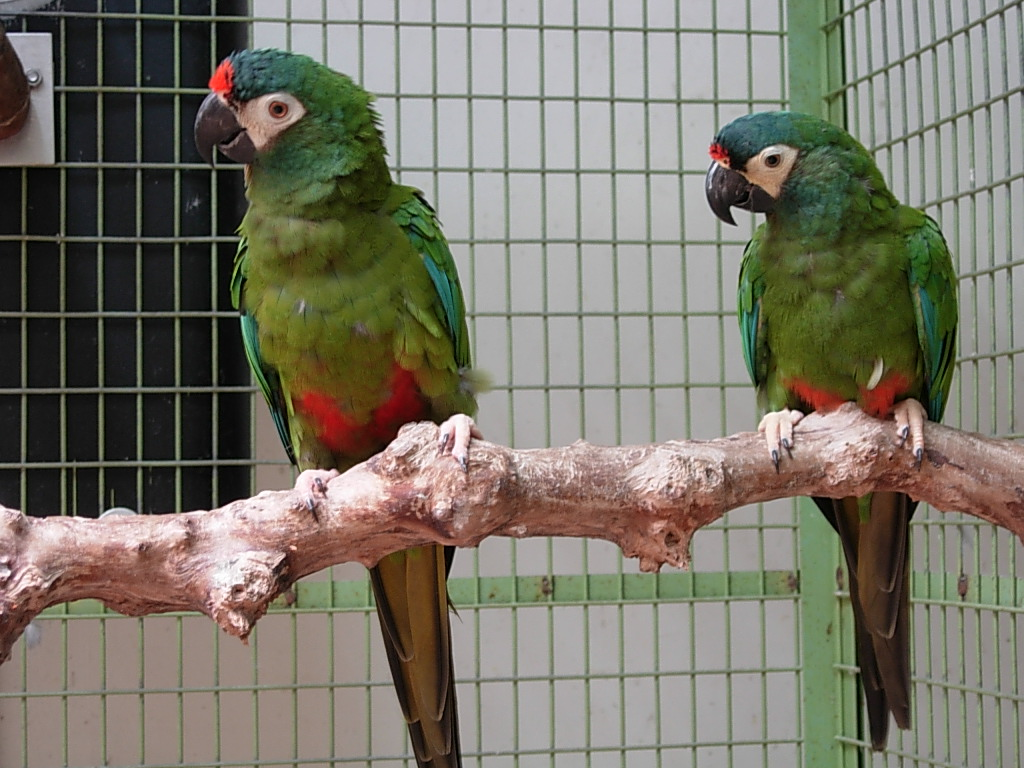 Blue-winged Macaw (also known as Illiger's Macaw). Two captive.